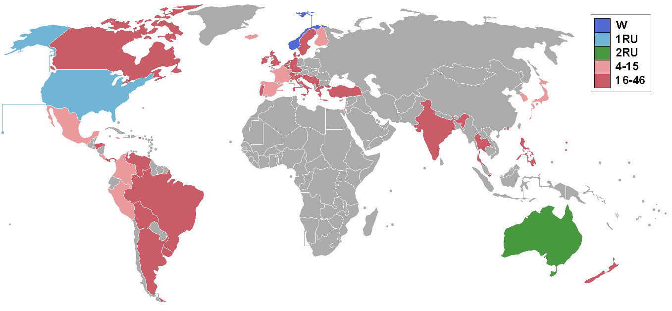 Miss International 1988 results map